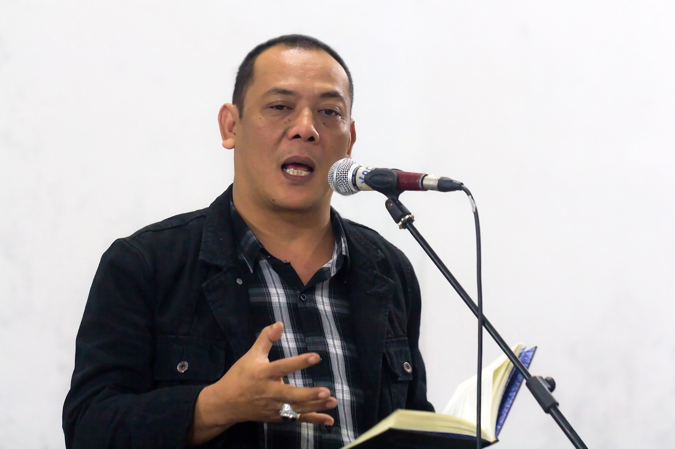 Indonesian poet Sitok Srengenge reading one of his poems at the slametan for his new poetry collection Ereignis dan Cinta yang Keras Kepala, 2015-08-22